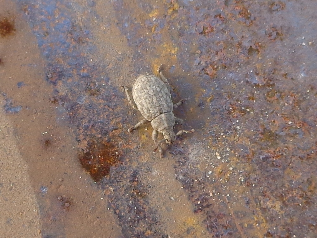 Trachyphloeus bifoveolatus. Found in Rīga town, Latvia.